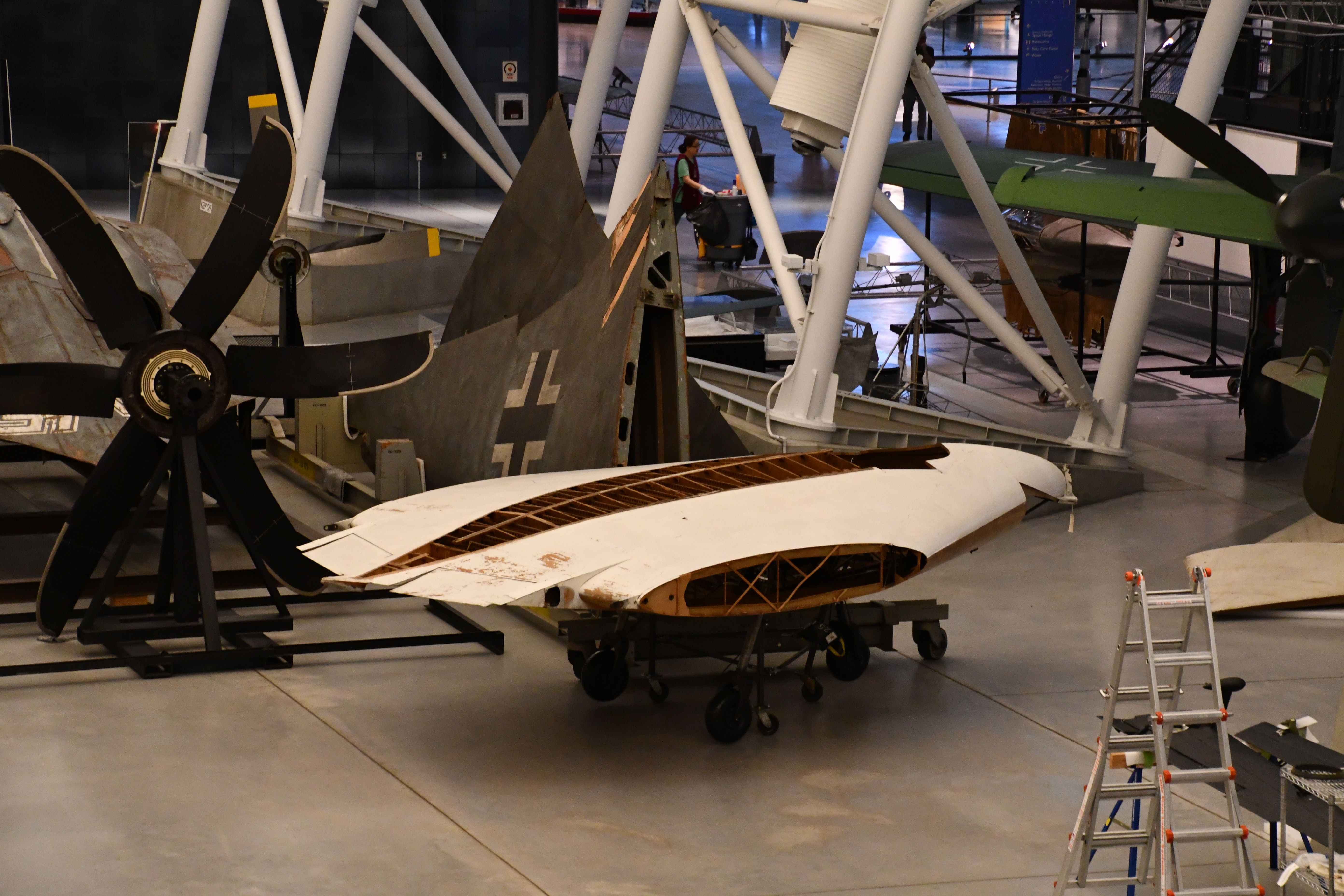 Remains of the Lippisch DM1 at the Steven F. Udvar-Hazy Center (Chantilly, VA)